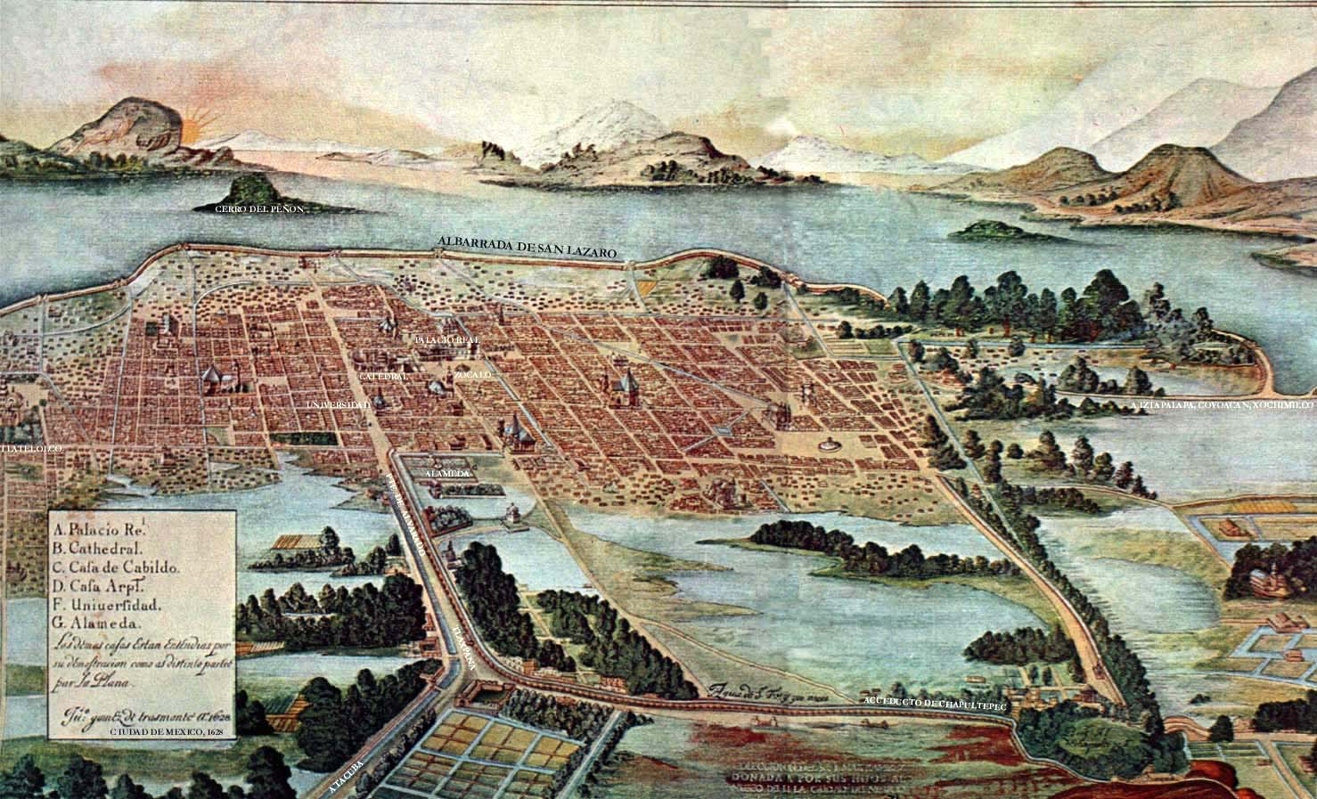 Mexico City in 1628. Mexico City around the time of Hasekura's visit. 1628 painting.